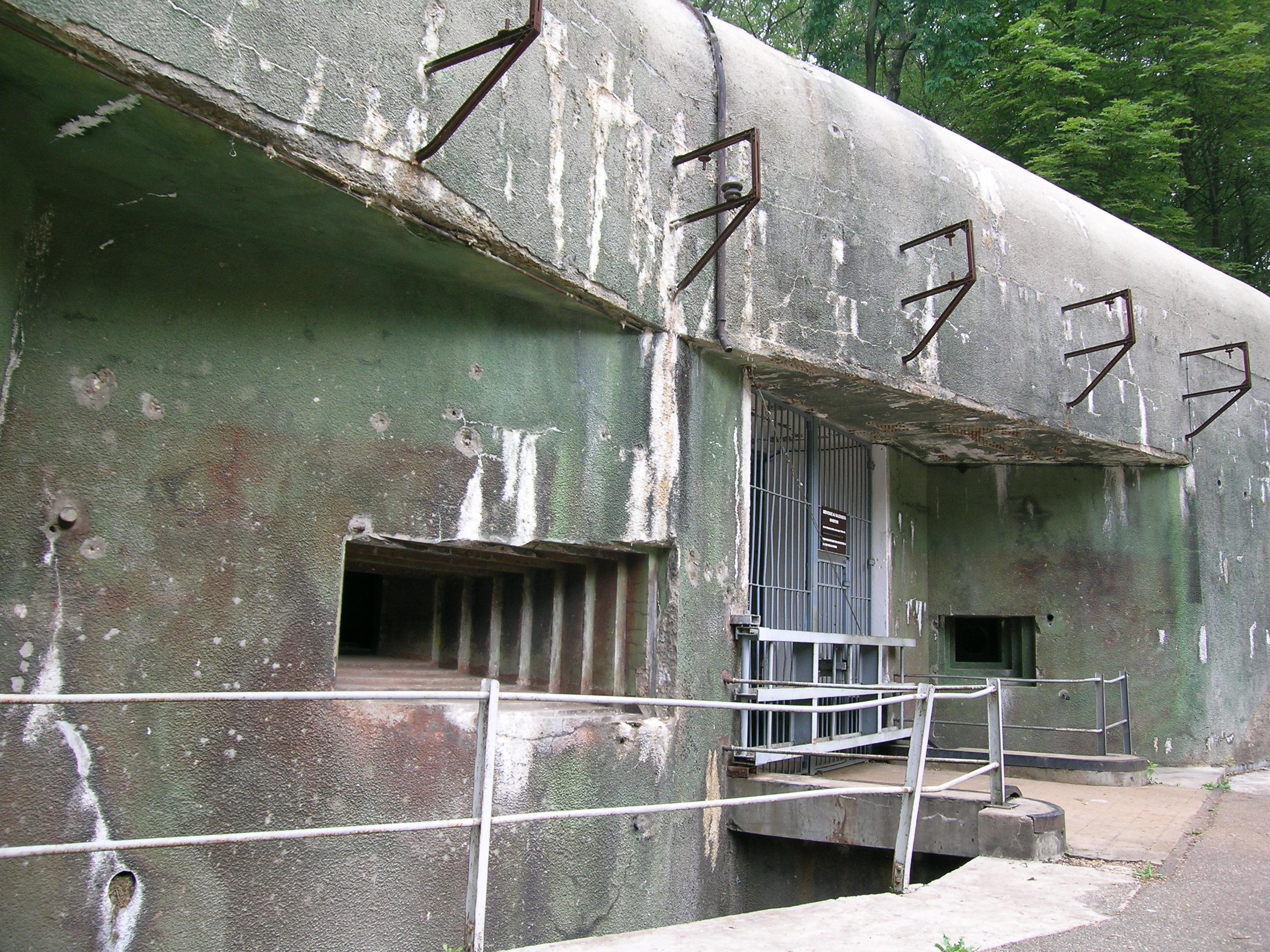 Admunitions entry Block,Ouvrage Galgenberg, Moselle, France.